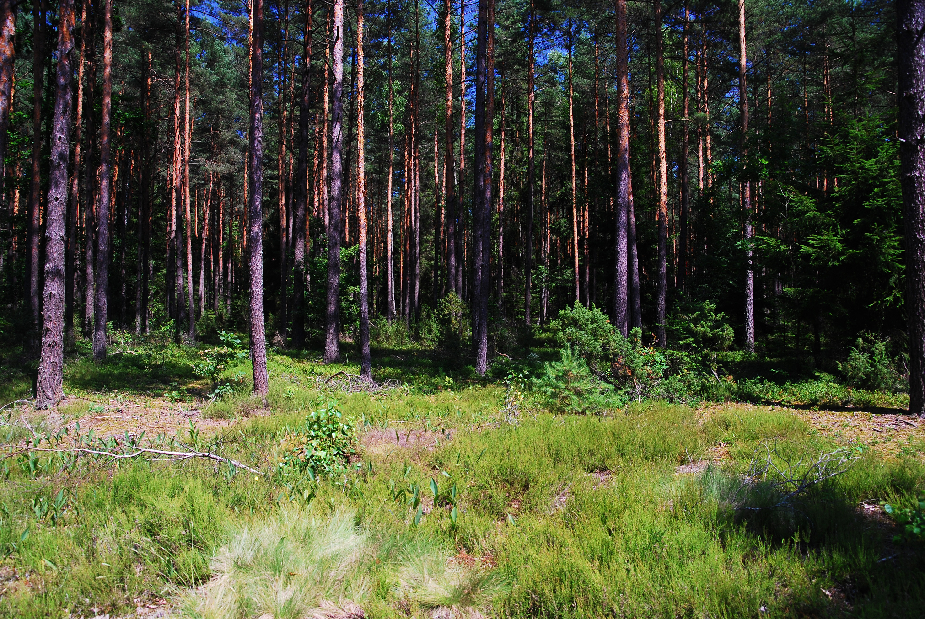 This photo from Podlaskie Voievodeship was taken during Polish Wikiexpedition 2009 set up by Wikimedia Polska Association. The making of this document was supported by Wikimedia Polska. Runo leśne rezerwatu Stara Ruda